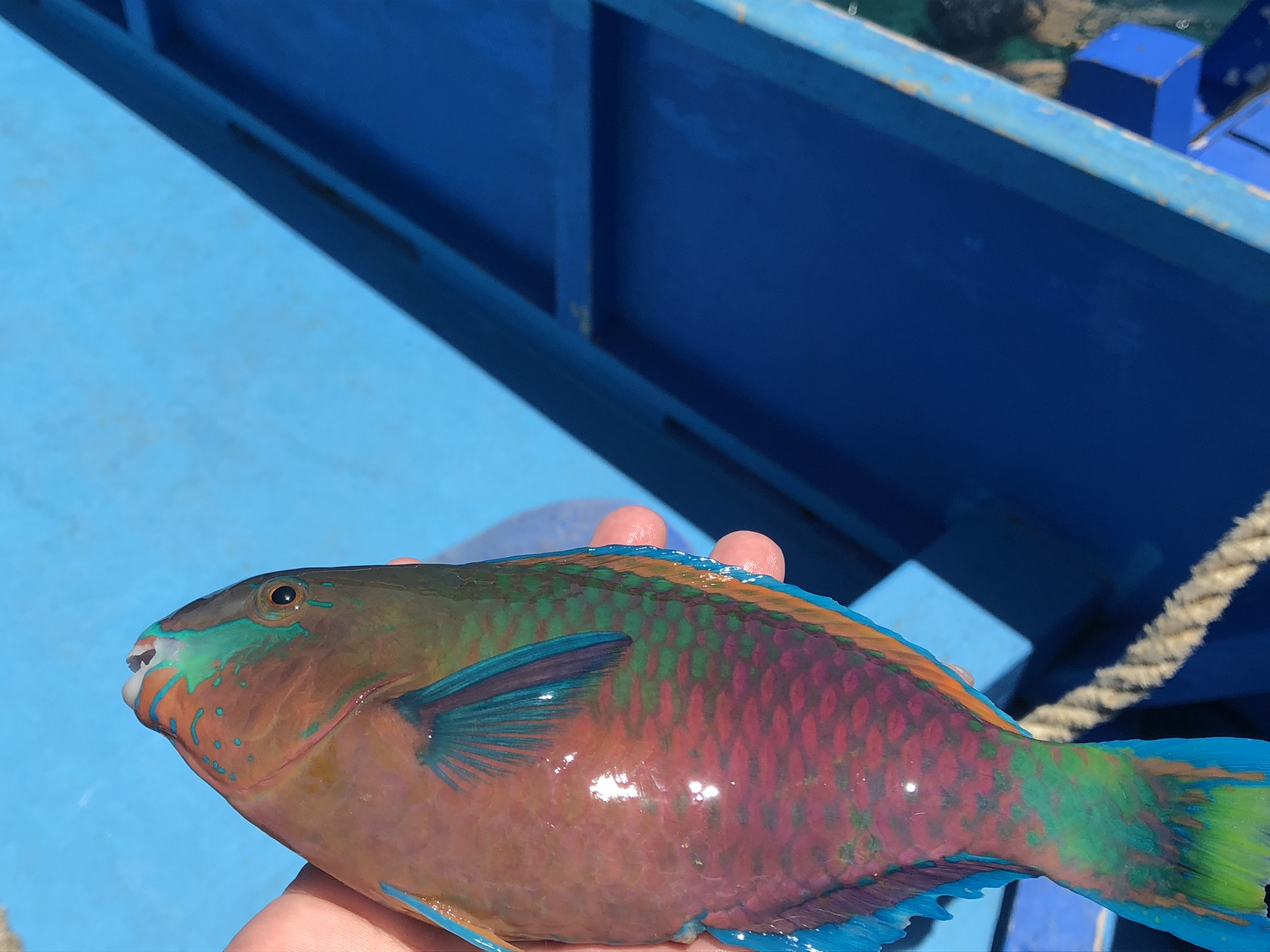 Bicolour parrotfish or bumphead parrotfish (Cetoscarus bicolor),catched by fisherman from the Calamian Group in the Philippines